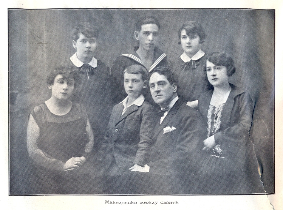 Bulgarian opera singer Stefan Makedonski "among his folks"